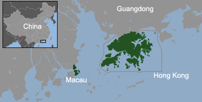 The location of SARs within the Pearl River Delta The map also shows the maritime boundary of Hong Kong since July 1 1997 and Macau since December 20, 1999 .